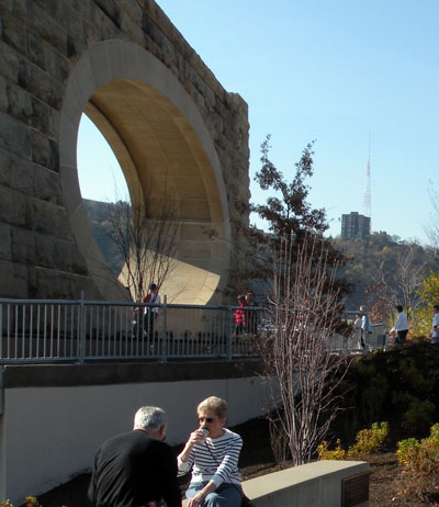 Picture of a former pier from the Manchester Bridge in Pittsburgh, Pennsylvania, on November 8, 2009. The Manchester Bridge opened in 1915, and connected the North Shore to The Point of Pittsburgh. The bridge was demolished in 1970, and only the northern pier was left standing for a proposed observation deck that was never built. In 2009, the pier was made into an arched walkway leading up to a statue of Fred Rogers. Former bridge piers such as this one from the Manchester Bridge, as well as former piers from the Point Bridge and the Wabash Bridge, are on the List of Pittsburgh Landmarks recognized by the Pittsburgh History and Landmarks Foundation (PHLF).